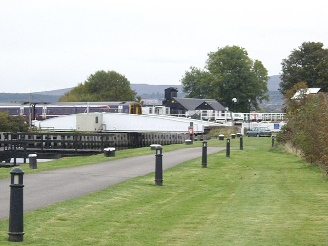 Railway swing bridge over Caledonian Canal At Clachnaharry; with a train from Inverness to Dingwall crossing.